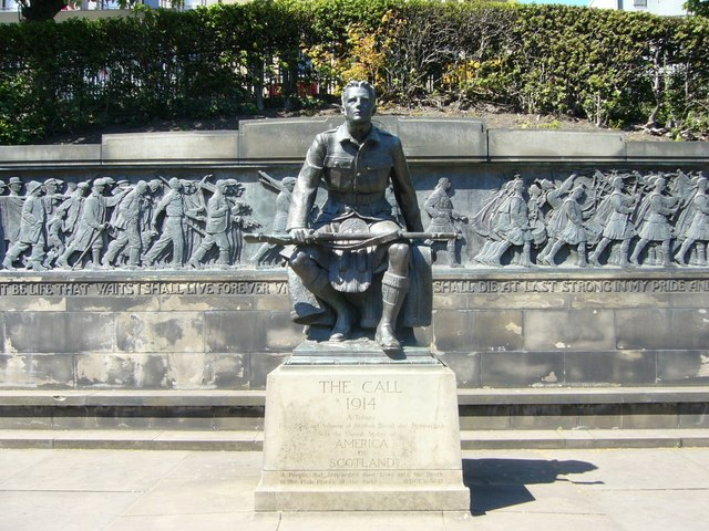 Scottish-American War Memorial, Princes Street Gardens Memorial to U.S. soldiers of Scottish origin who fought in the Great War, 1914-18. Scots_American_War_Memorial Ewart_Alan_Mackintosh